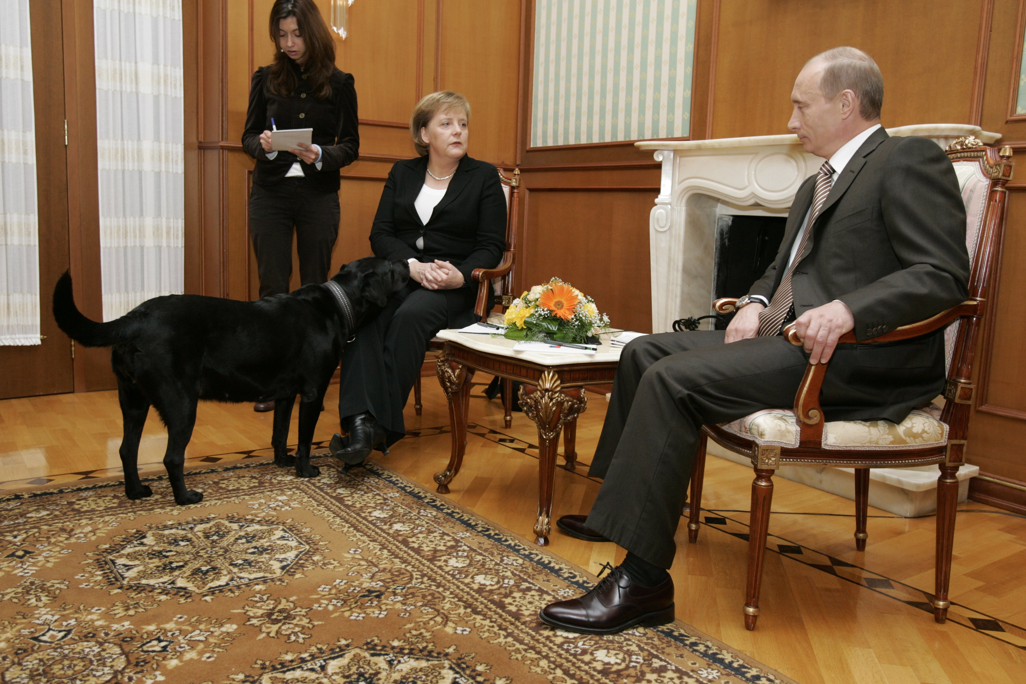 BOCHAROV RUCHEI, SOCHI. During the meeting with Federal Chancellor of Germany Angela Merkel.